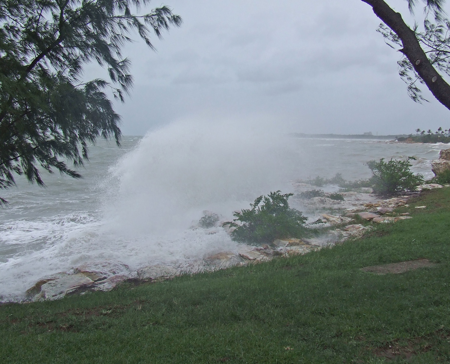 Sea spary.